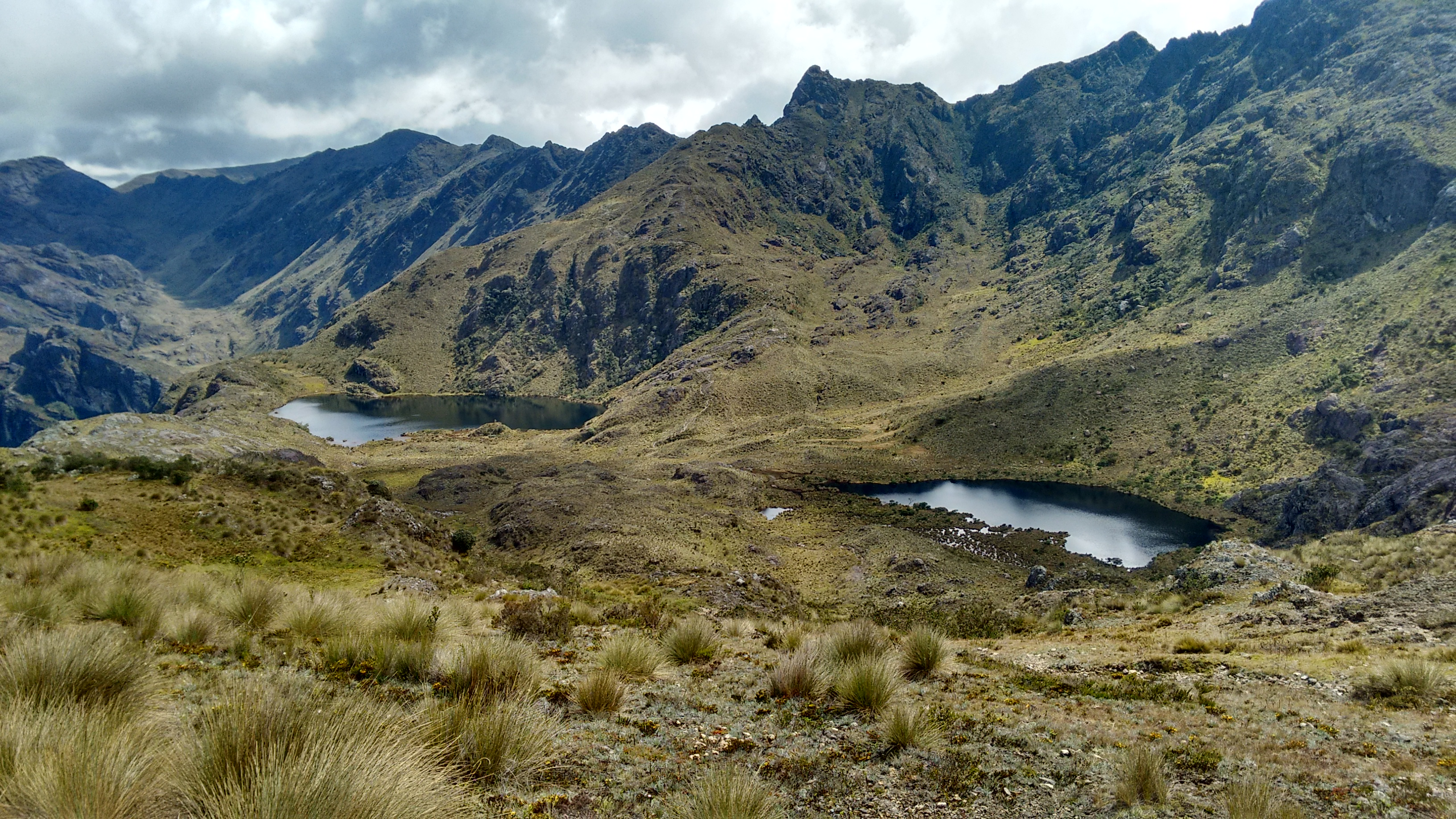 Lake Macho (right) and Surcura (left) at Santurbán Mutiscua-Pamplona Regional Park